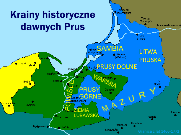 Map of historical lands and regions in Prussia: Warmia (Ermland), Mazury (Mazuria), Prusy Górne (Oberland), Prusy Dolne, Powiśle, Lubawa region, Sambia, Litwa Pruska (Lithuania Minor).